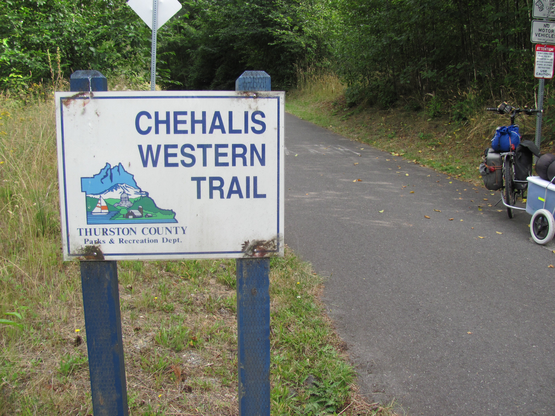 Chehalis Western Trail south of Olympia